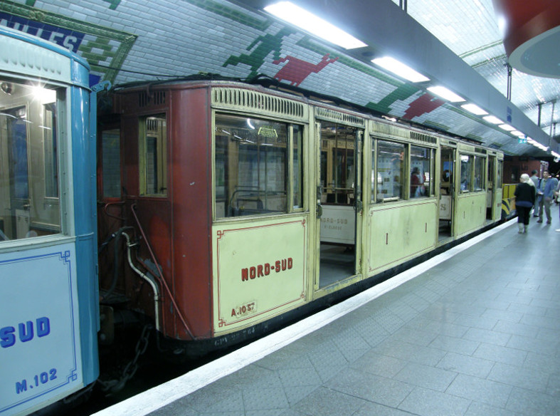 The first class Sprague-Thomson wagons of the Nord-Sud Company had jalousies and were painted in yellow and red.